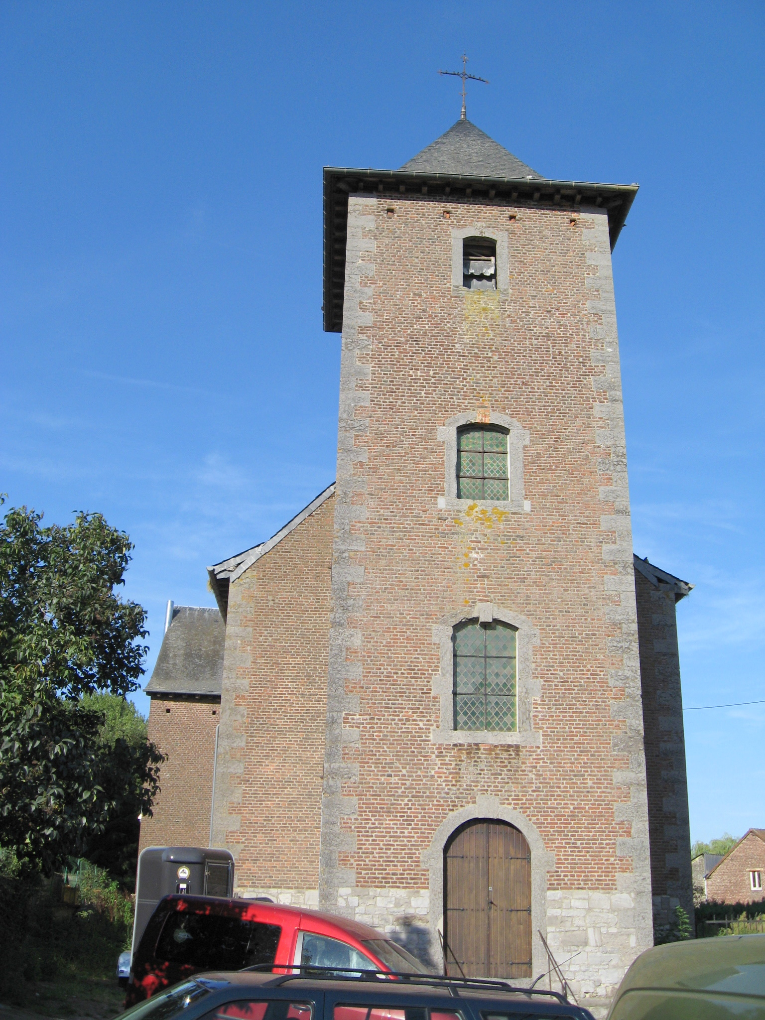 Church of Our Lady of the Annunciation in Ville-en-Hesbaye, Braives, Liège, Belgium